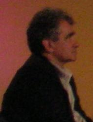 During the 2007 National Eisteddfod, young Welsh poets read out their Welsh translations of works by well known Basque poets as part of the Literature Across Frontiers programme. The Basque poets Bernardo Atxaga, Rikardo Arregi and Miren Agur Meabe were present and read out their original work. More.